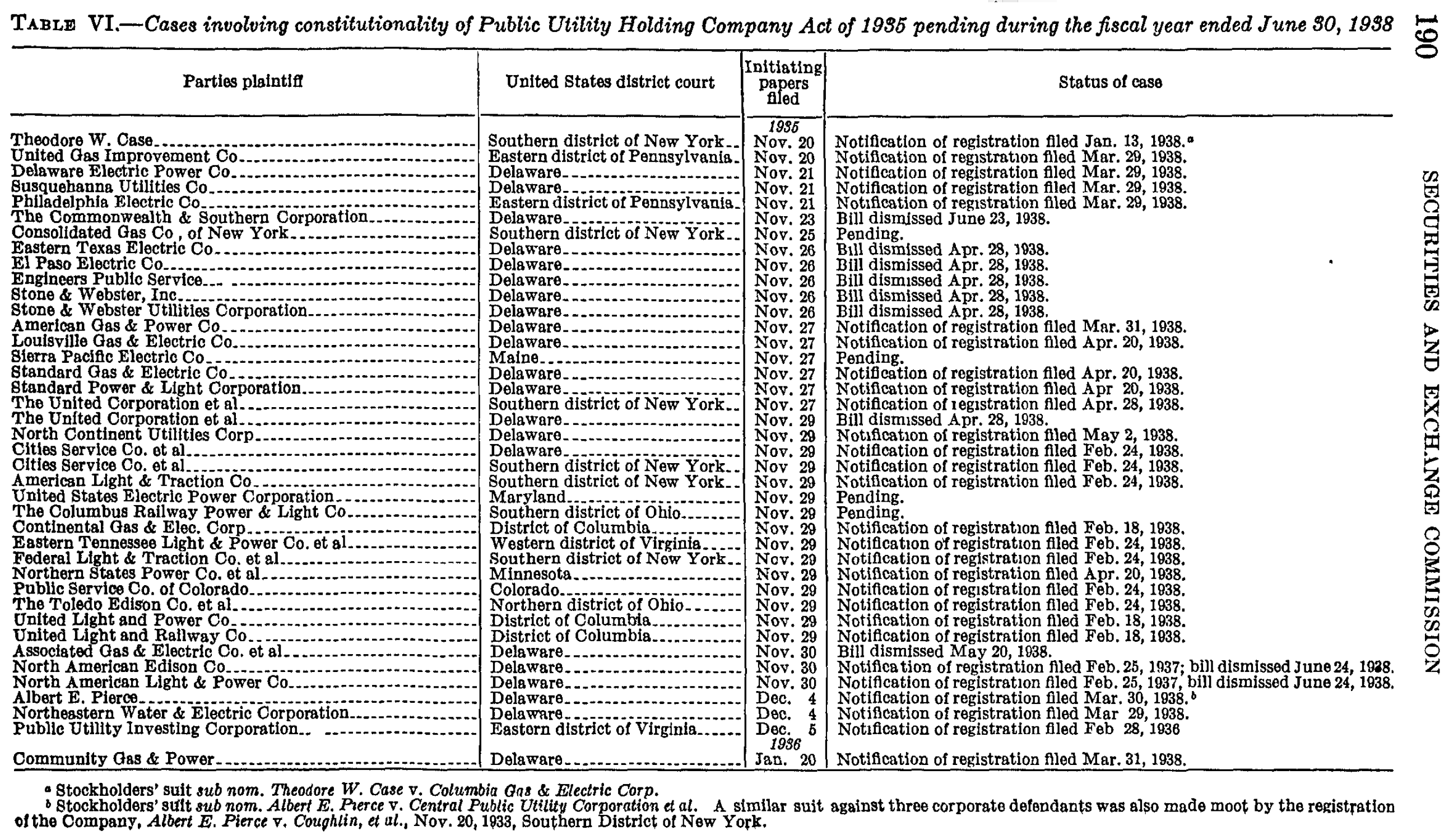 Status of lawsuits filed by electric companies against the Public Utility Holding Company Act of 1935 as of June 1938.